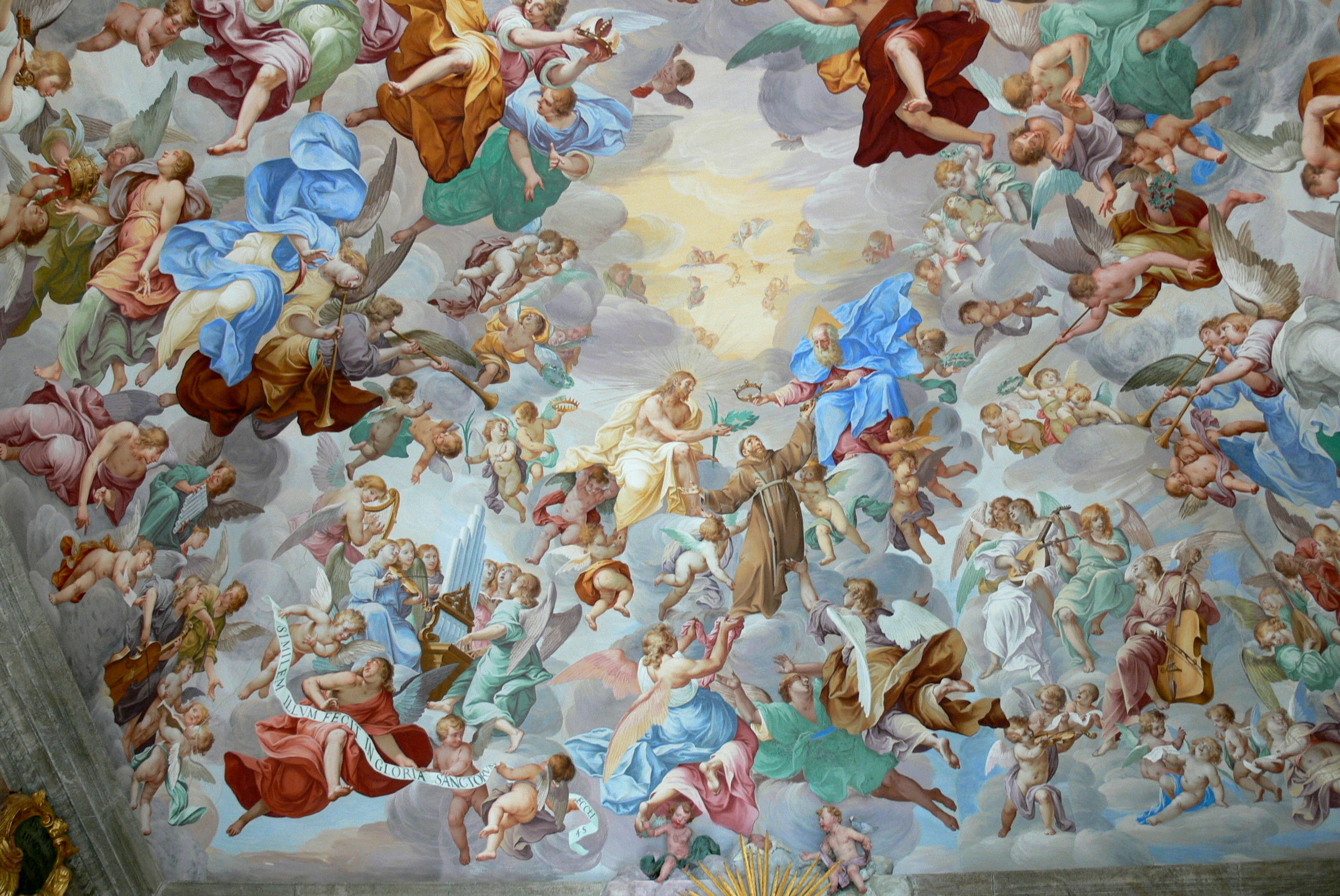 The coronation of Saint Francis by the Holy Trinity.